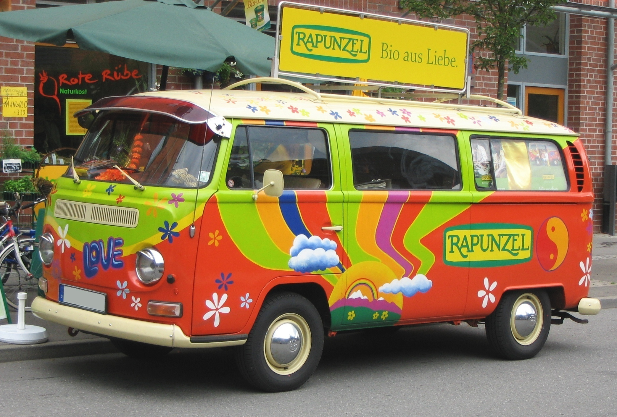 A Volkswagen car owned by Rapunzel Naturkost on promotion tour in Tübingen.